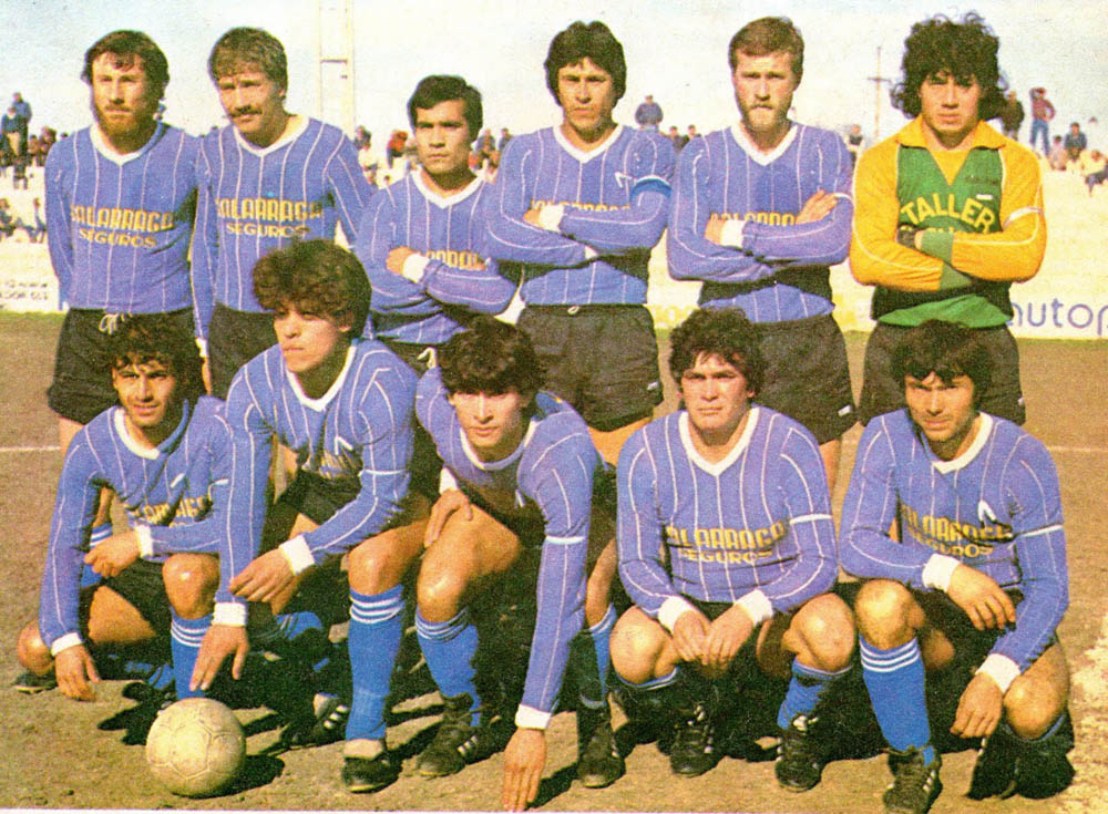 Argentino de Merlo 1985 team, which won the Primera D championship that year